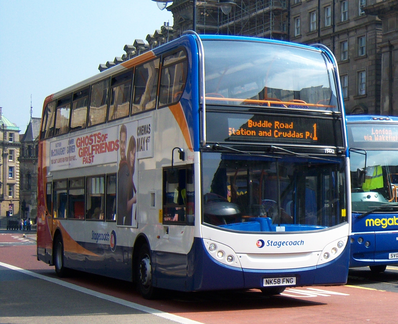 Stagecoach in Newcastle 19442 (NK58 FNG), an Alexander Dennis Enviro400, in Newcastle, Tyne and Wear, on route 1.